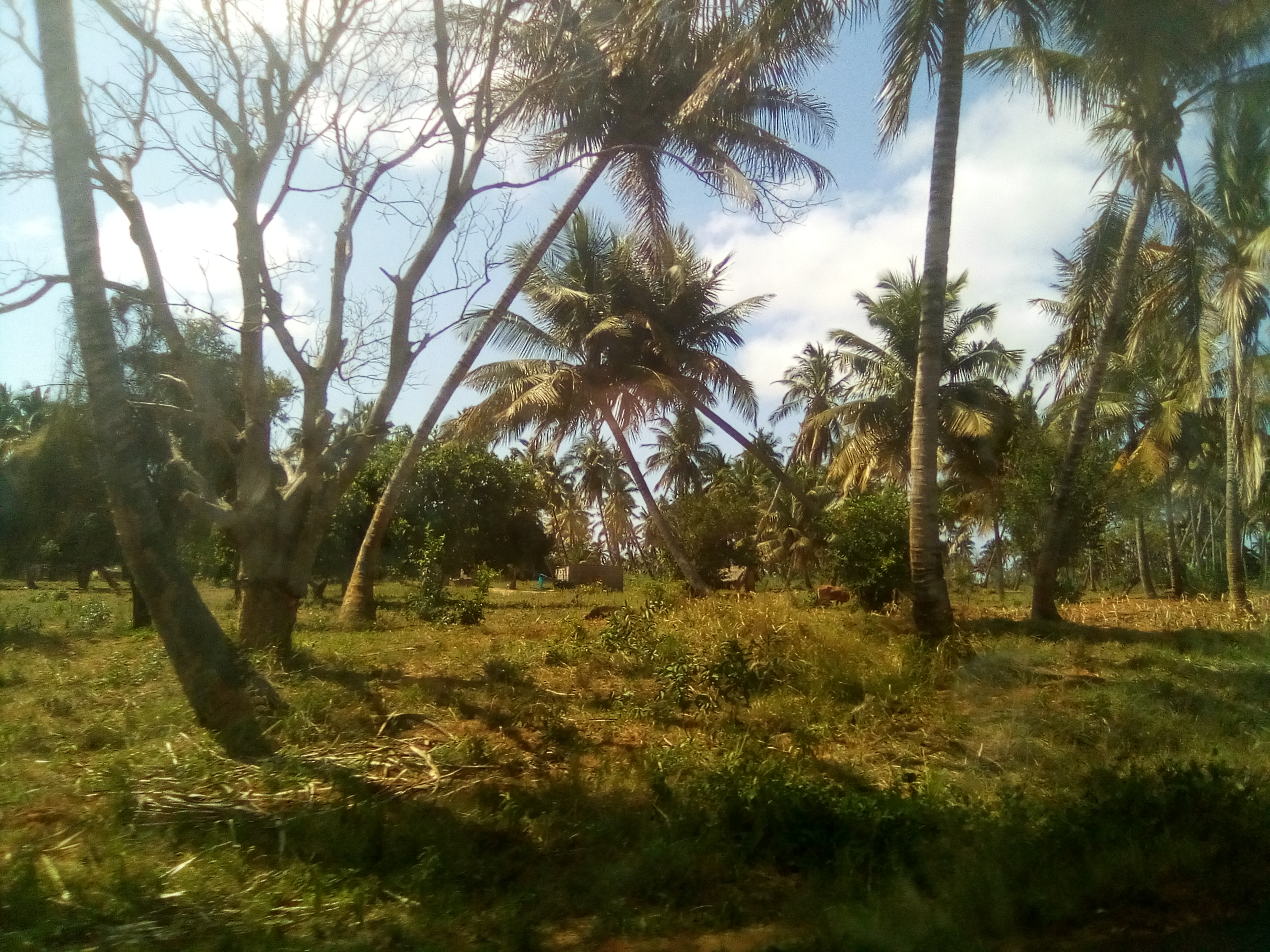 This is an image with the theme "Africa on the Move or Transport" from: Mozambique